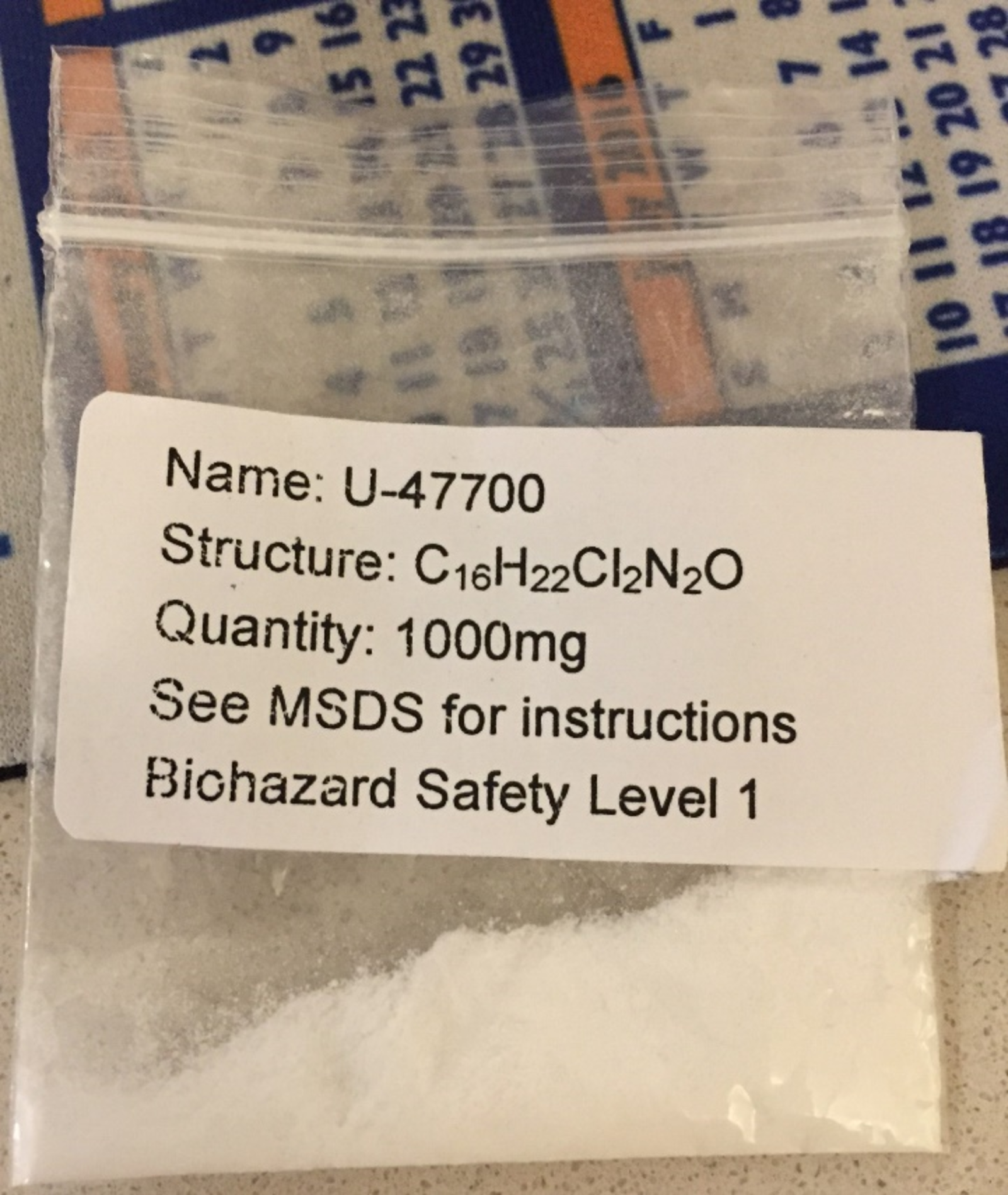 Physical sample of U-47700's crystalline structure